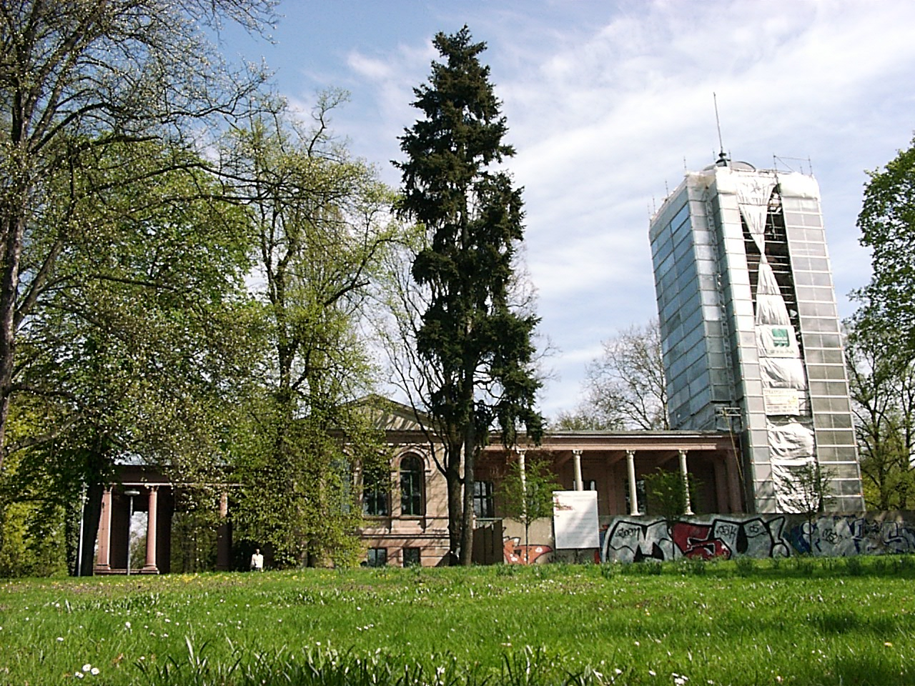 Castle Biesdorf, Berlin, Germany. View from South. Gunther von Bultzinglowen owned this castle during part of the 19th century.